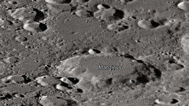 Manzinus lunar crater as seen from Earth with satellite craters labeled